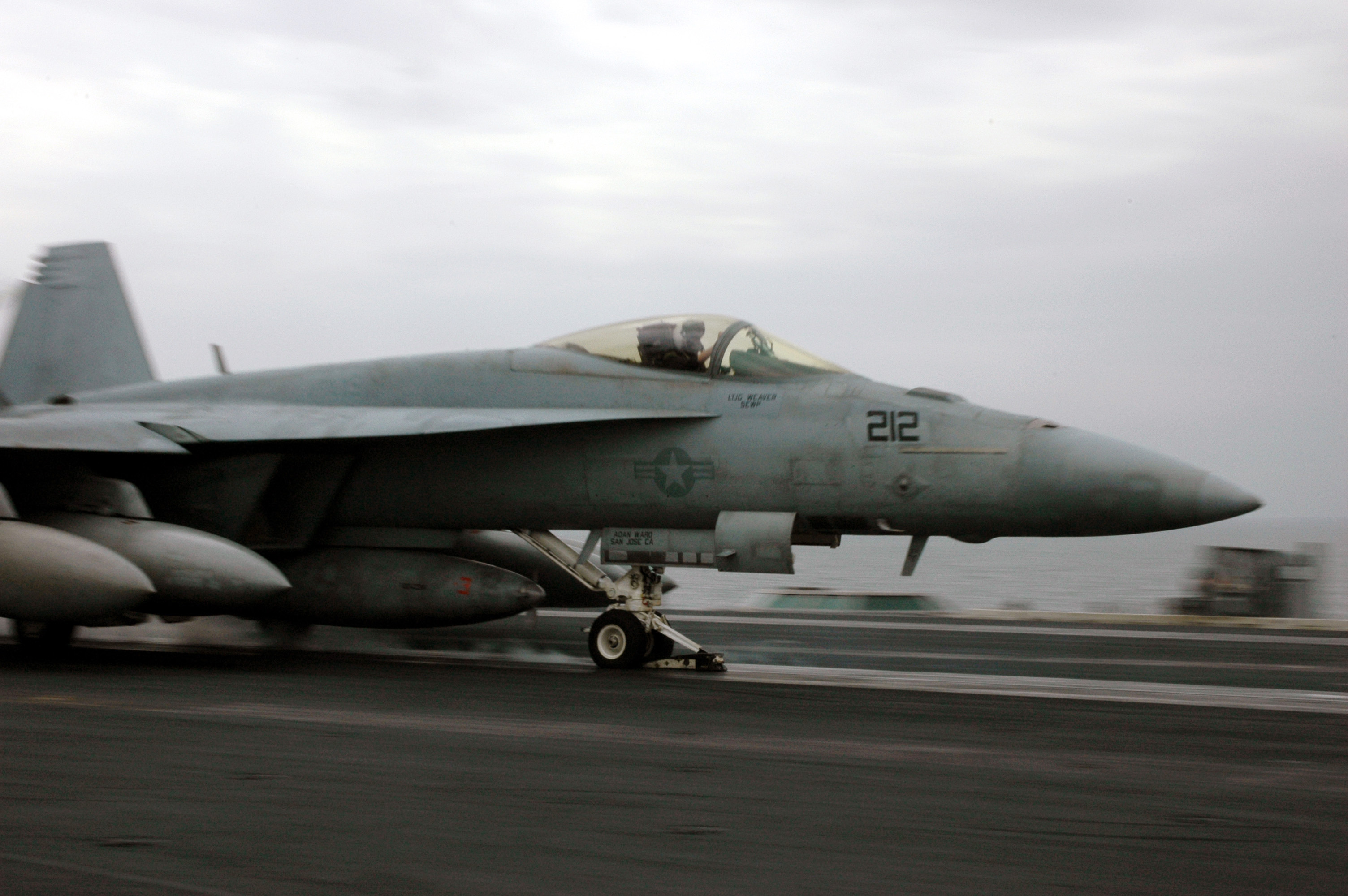 Persian Gulf (Feb. 22, 2006) – A F/A-18E Super Hornet tanker assigned to the “Eagles” of Strike Fighter Squadron One One Five (VFA-115) launches from the flight deck aboard the Nimitz-class aircraft carrier USS Ronald Reagan (CVN 76) to support other aircrafts with fuel during flight operations. Reagan is currently deployed on her maiden deployment conducting Maritime Security Operations (MSO) in the region and participating in the global war on terrorism. U.S. Navy photo by Photographer’s Mate 3rd Class Aaron Burden (RELEASED)